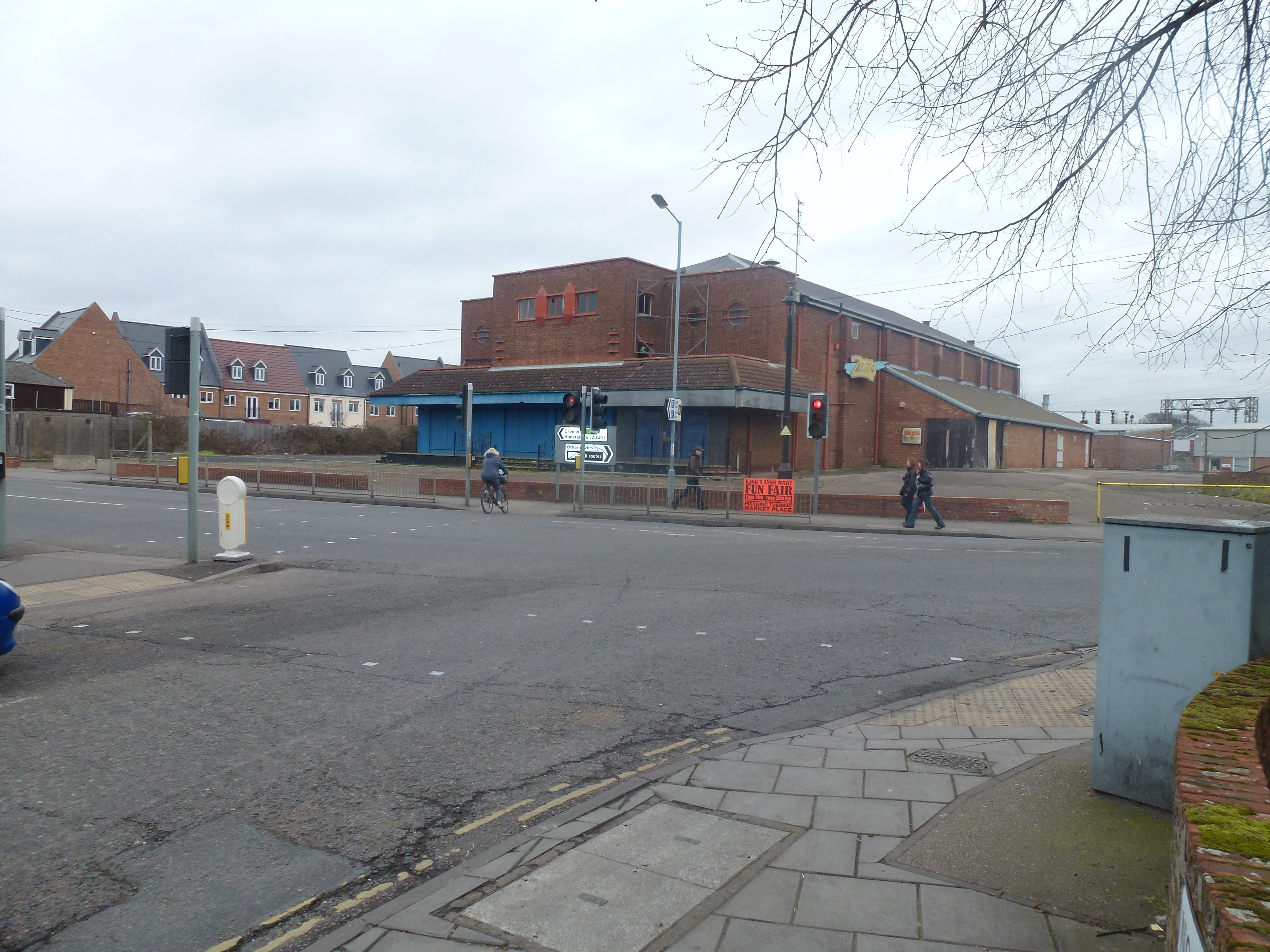 The old Pilot cinema, Kings Lynn